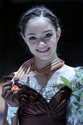 Evgenia Medvedeva at the Junior World Championships 2015 - Awarding ceremony